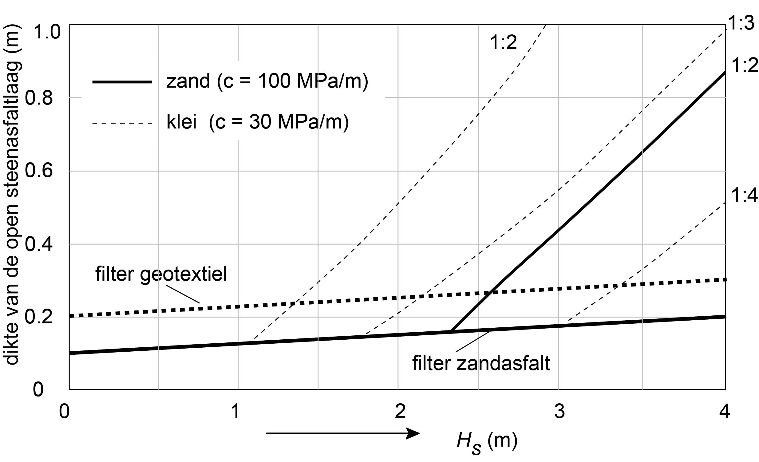 Required thickness for Open Stone Asphalt under wave action according to guideline "Technisch Rapport Asfalt voor Waterkering".